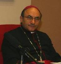 Immagine del vescovo di Vittorio Veneto Corrado Pizziolo